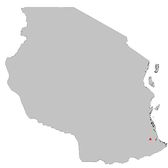 Map showing the location of the Tendaguru Training (marked with a red dot) in Tanzania